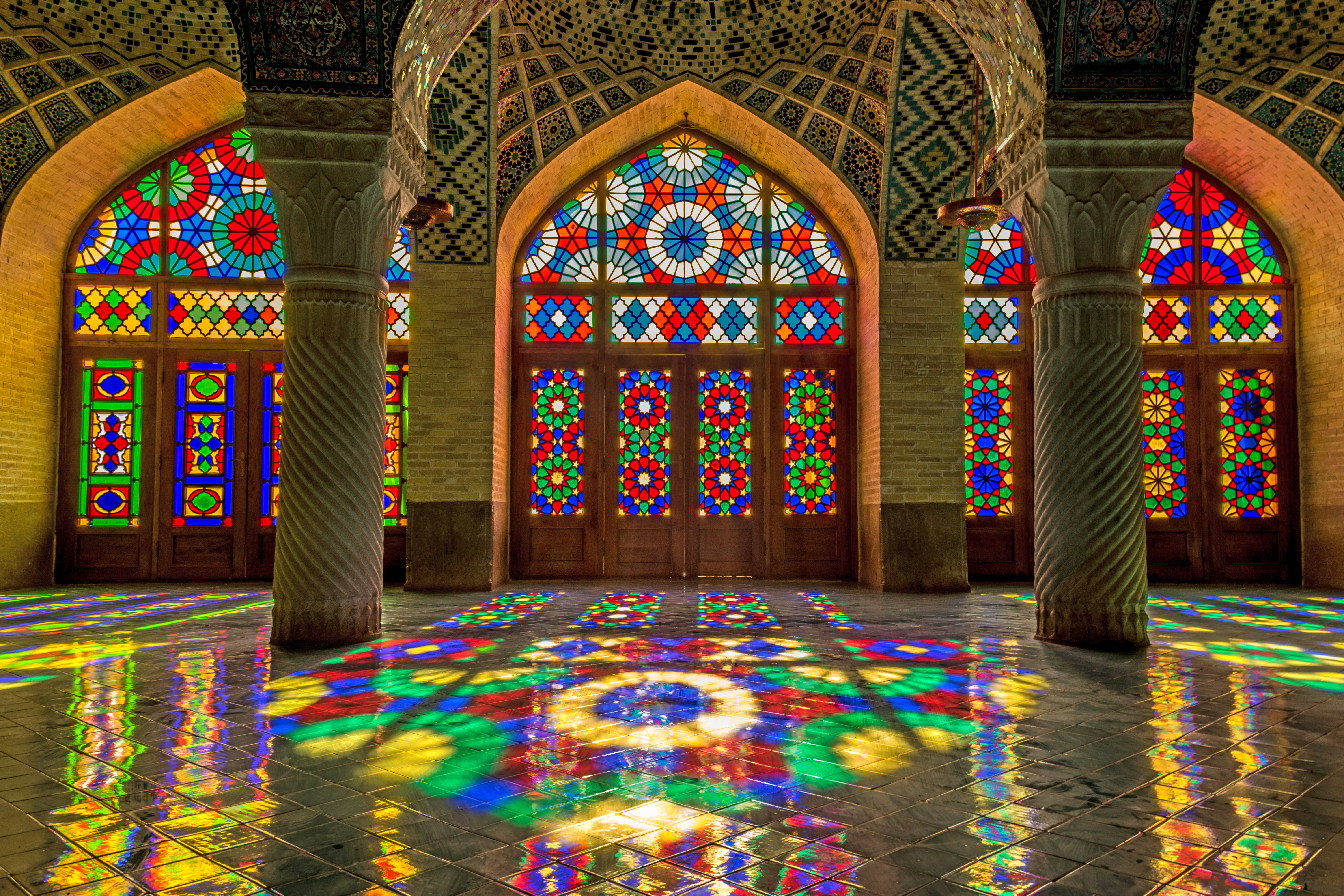 Nasir ol Molk Mosque